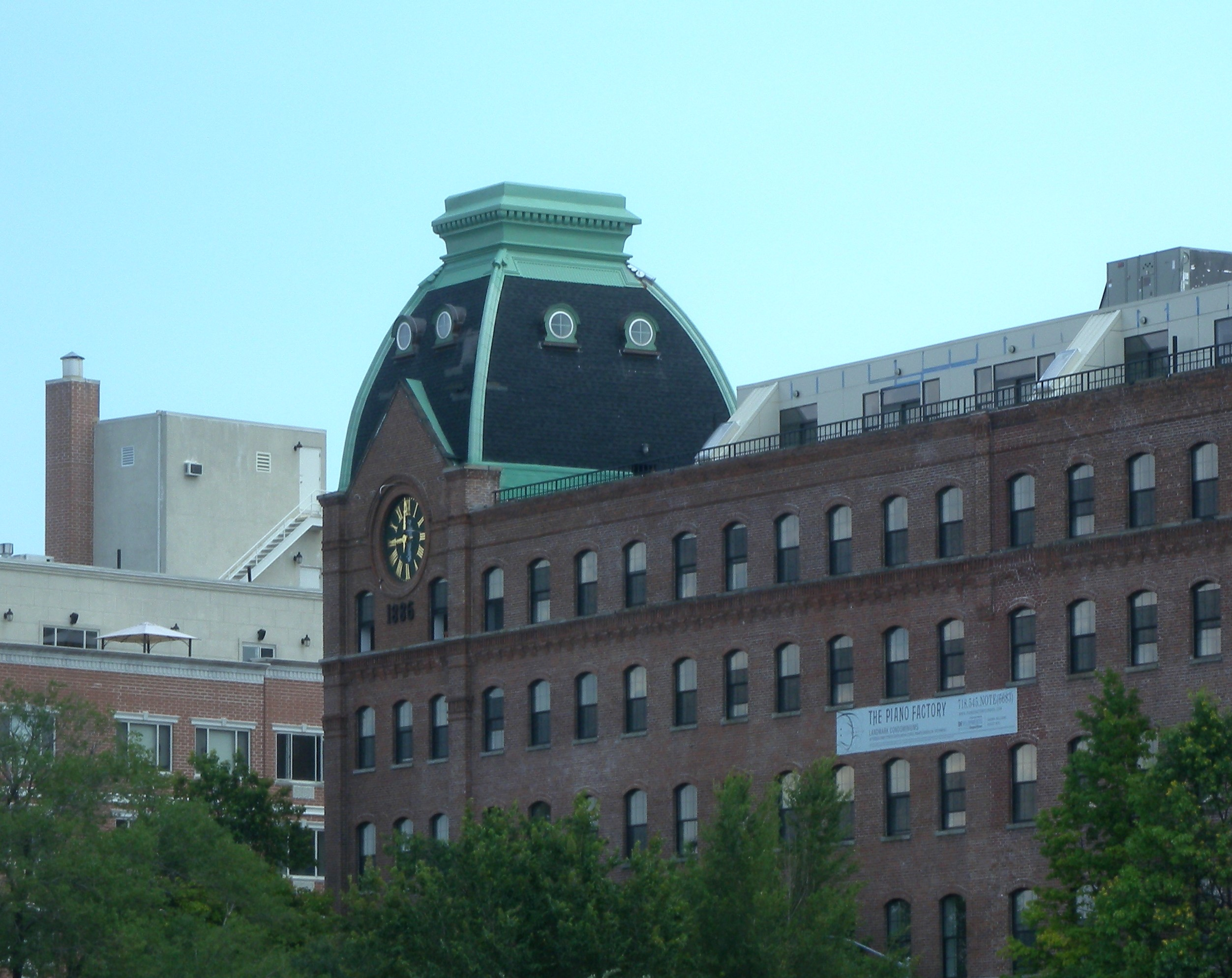 Looking east, full zoom, at Sohmer factory, now apartments, from Socrates Park on a partly cloudy midday.